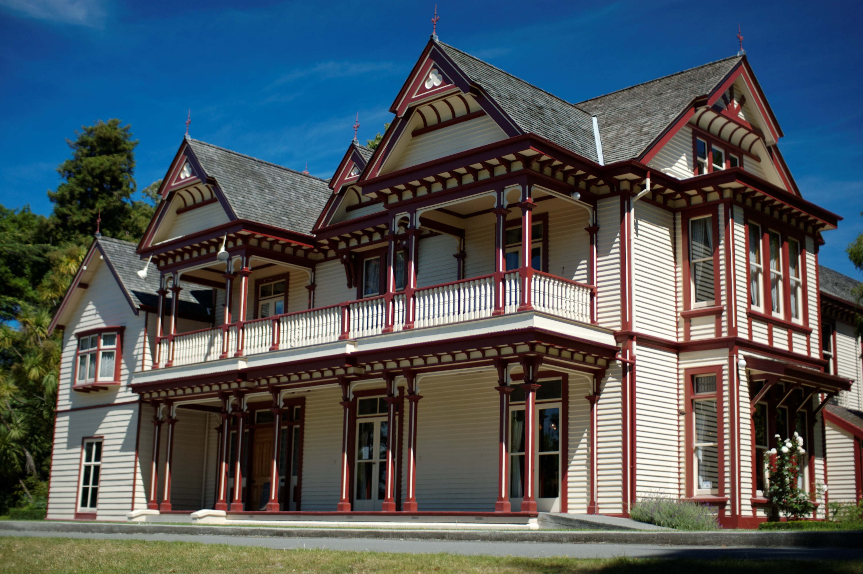 Riccarton House in Christchurch. New Zealand Historic Places Trust Register number: 1868.